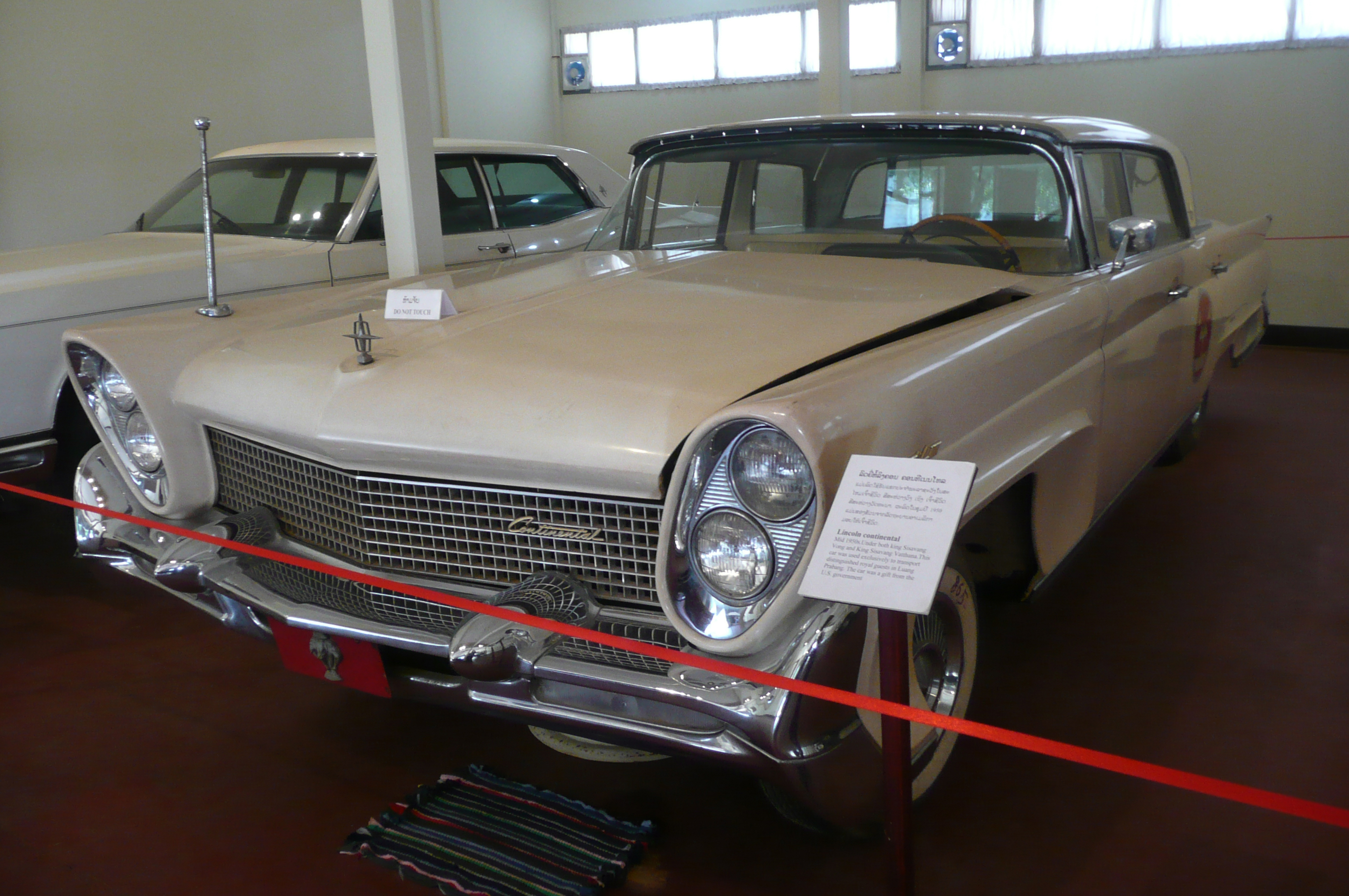 1958 Continental Mark III Landau Sedan gifted to the Lao royal family by the United States. This car was used to ferry prominent guests around Luang Prabang. It was first used during the reign of Sisavang Vong and then Sisavang Vatthana.